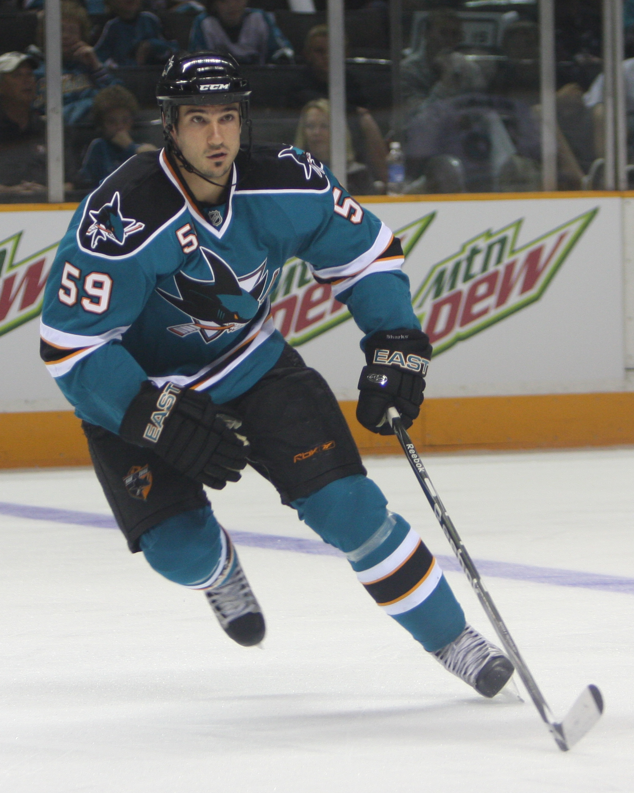 Brad Staubitz at the SJ Sharks Teal And White Game 2009